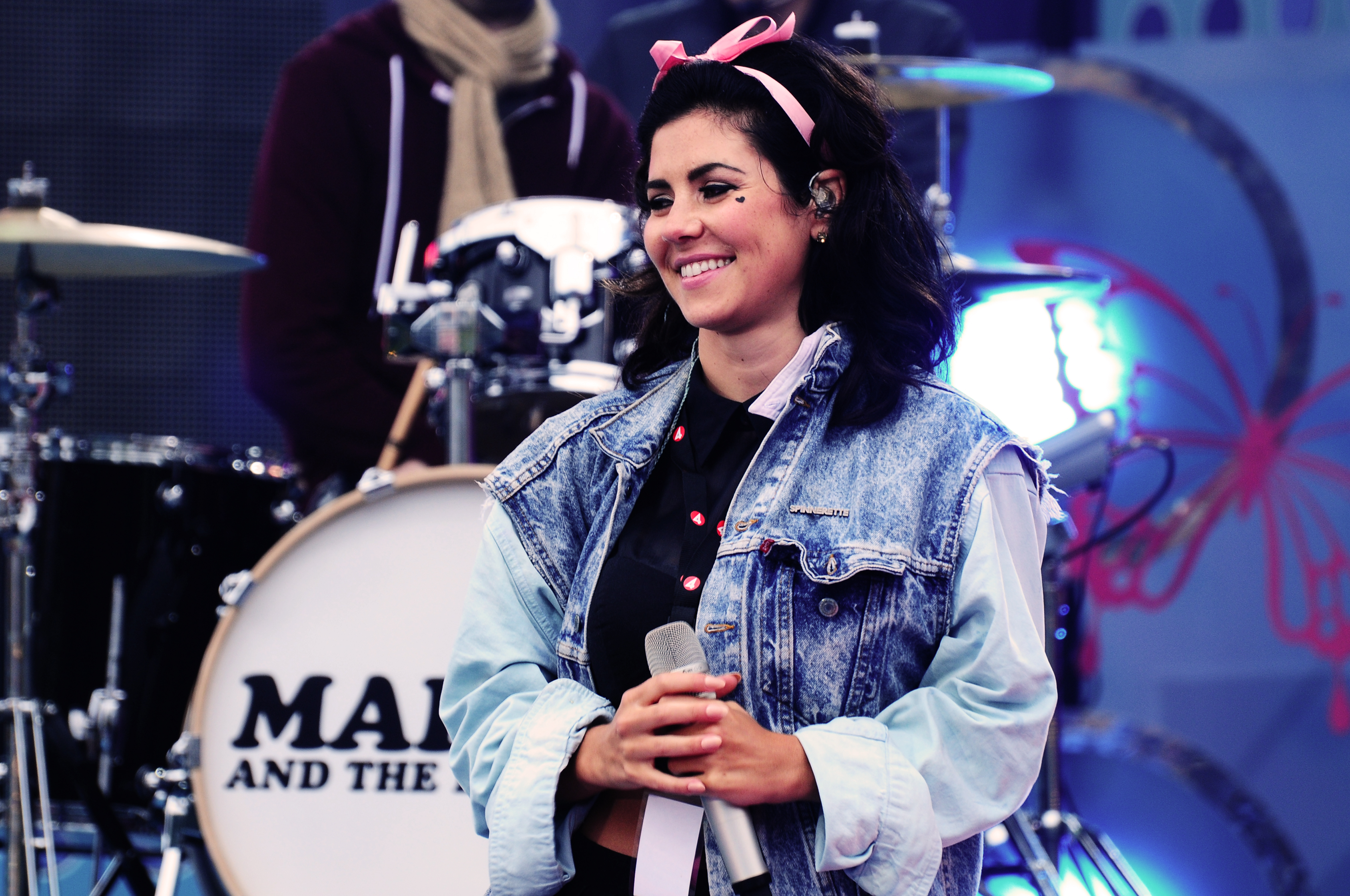 Marina and the Diamonds at Sommarkrysset, Sweden, in 2012